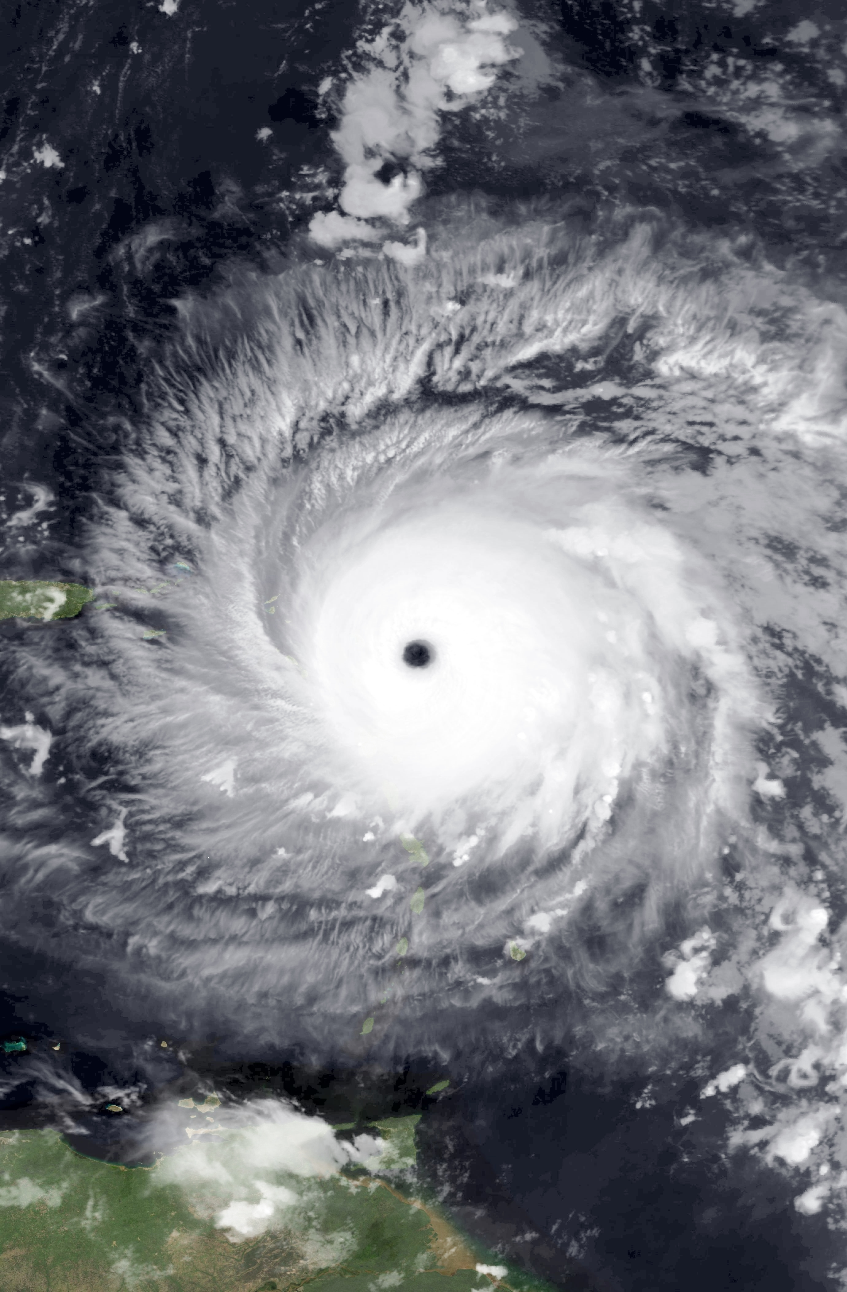 Hurricane Irma at peak intensity nearing its first landfall on the island of Barbuda at 02:25 UTC on September 6, 2017. At the time, maximum sustained winds were 180 mph (295 km/h) and the pressure was at 916 mbar (27.05 inHg), making it the most intense Atlantic hurricane since Hurricane Wilma in 2005.